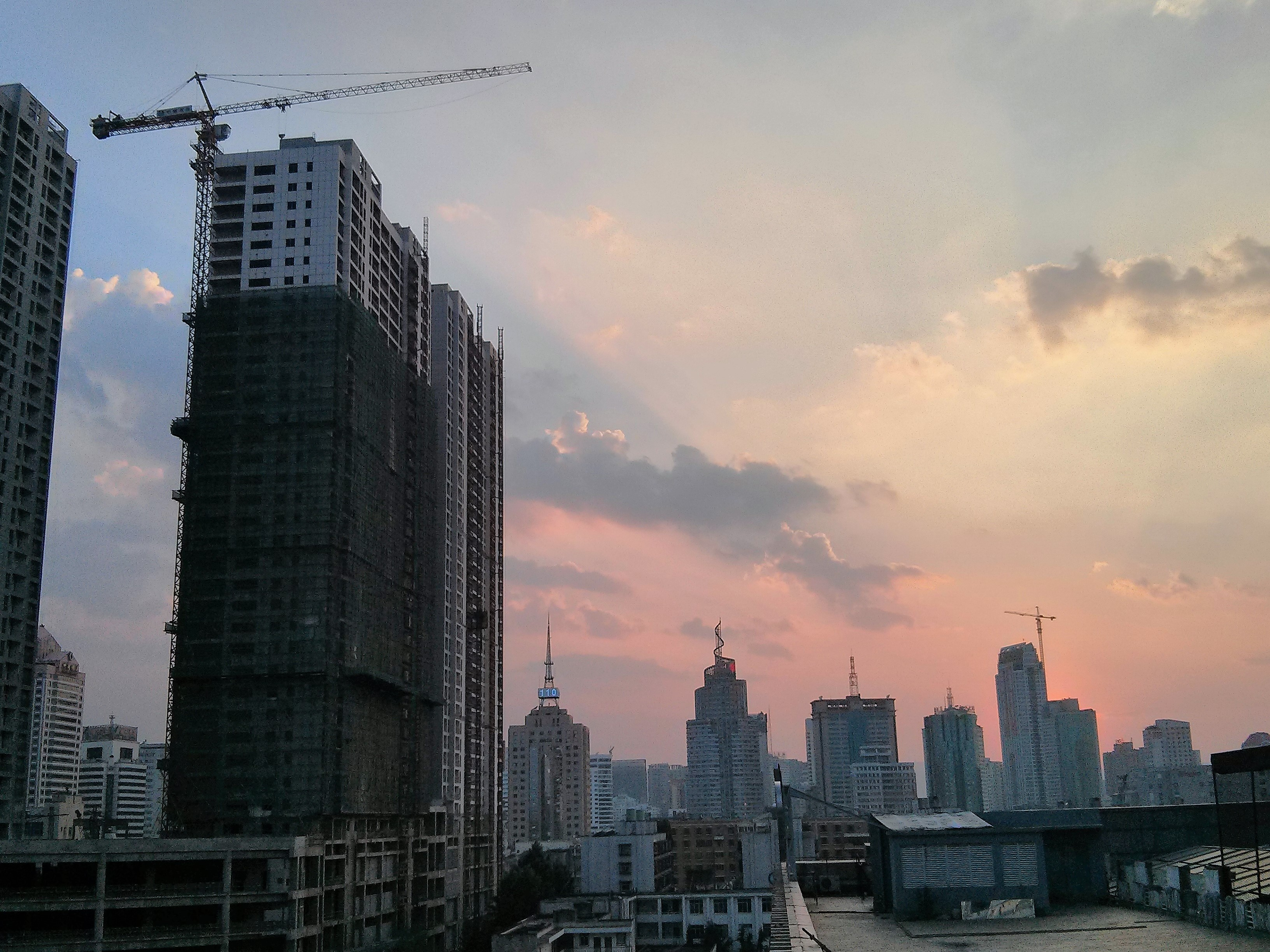 View on the Kunming skyline in August 2013.